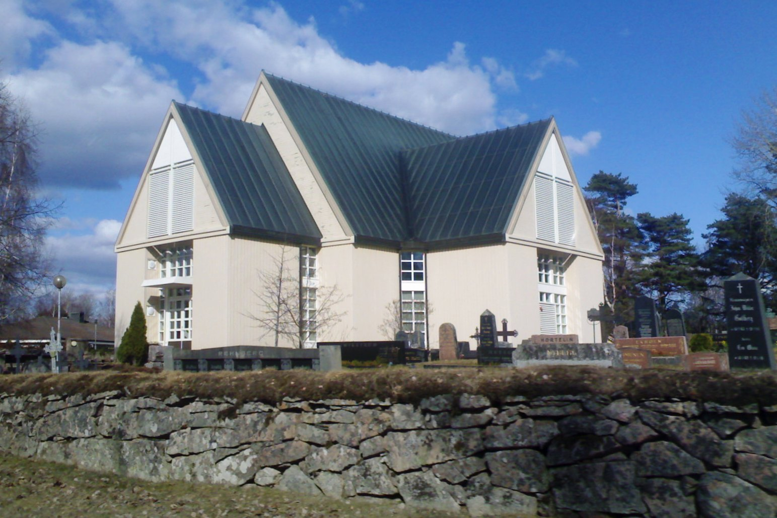 Bromarv Church in Bromarv, Raseborg, Finland